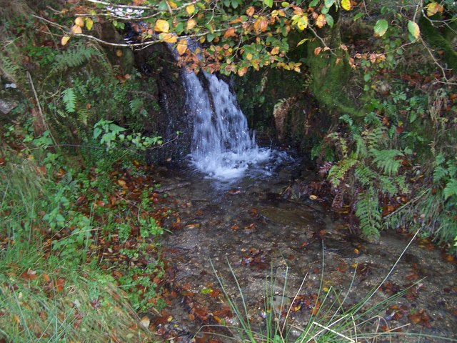 Exmoor : Waterfall A small waterfall on Exmoor